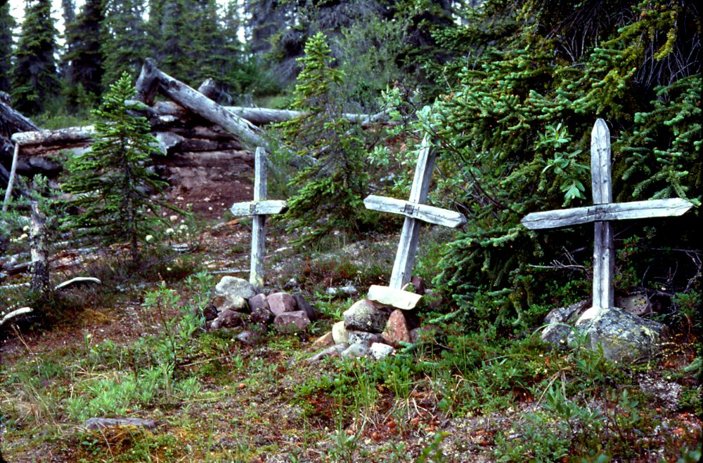 Photo showing the remains of John Hornby's cabin on the Thelon River as seen in 1978. Photo taken by Cameron Hayne (i.e. by me) User:Hayne